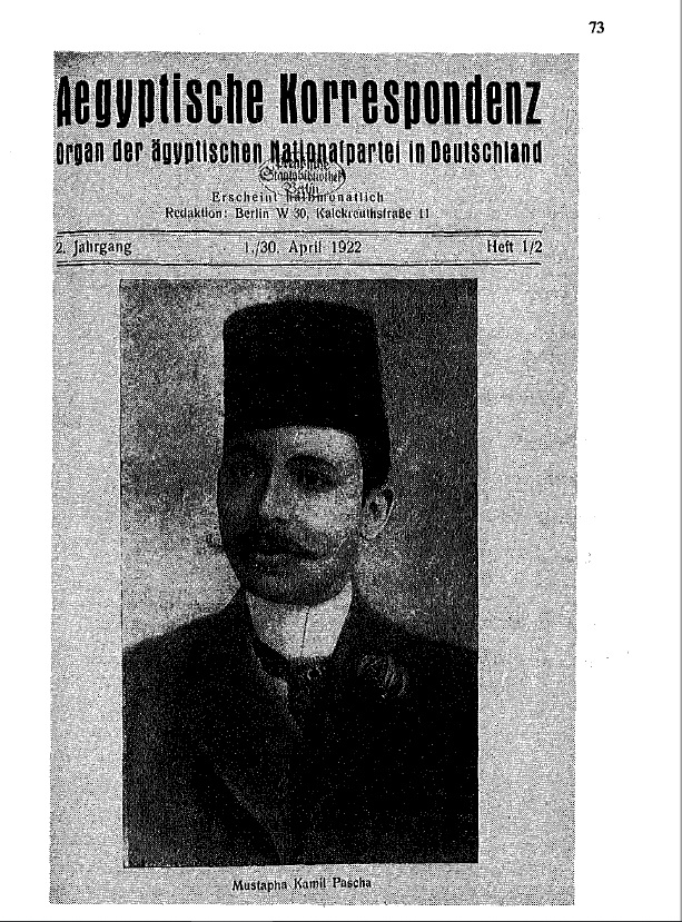 Aegyptische Korrespondenz 1922 Organ of the Egyptian National Party in Germany Aegyptische Korrespondenz Organ der ägyptischen Nationalpartei in Deutschland Herausgeber: Verantw. Redakteur lrLw. Schriftleiter: [Abdul-Aziz Schauisch] [Abdel-Ghaffar Metwalli] lbrahim 1. Youssef (3,1923,8/9-10/11) Abd EI Hadi Galal (3,1923,12 und 4,1924,1/2) Taha El-Aguizy (4,1924,13) Redaktion: Berlin W 15, Lietzenburger Str. 32 (1,1921/22,1-18) Berlin W 30 (ab 2,1922,7: W 62), Kalckreuthstr. 11 (1,1921,19/20-3,1923,6/7) Berlin W 62, Bayreuther Str. 12 (3,1923,8/9-10/11) Berlin W 50, Nürnberger Str. 35-36 (3,1923,12-4,1924,1/2) Berlin-Charlottenburg, Fritschestr. 52 (4,1924,13) Verlag: Druckerei: Richard Lantzsch Berlin S 14, Wallstr. 55 (1,1921/22,1-23/24) Buchdruckerei "Silesia" (3,1923,12: Buchdruckerei "Silesia" A.Kleiber) Berlin NO 55, Marienburger Str. 28 (2,1922,11und3,1923) N. v. Schwabe Berlin-Charlottenburg 4, Fritschestr. 44 (4,1924,13) 71 Erscheinung.Neise: halbmonatlich (1,1921/22,1-2,1922,3/4), monatlich (2,1922,5/6- 4,1924,13) Bezugspreis: unentgeltlich SpraChe: deutsch Umfang: 8 bis 32 Seiten pro Nummer IDustriert: ja Standort, Signatur, Bestand: la: Ur 9420/10 (gebunden in 2 Bänden) 1,1921/22,1-23/24; 2,1922,1/2-12; 1;1923,1-12; 4,1924,1/2 und 13 Lücken: 1,1921,4 und 8, 4,1924,3-12 (?) · 11: Gesch. 25495 (gebunden; Mikrofiches Mi 359) 1,1921/22,1-23/24; 2,1922,1/2-12; 3,1923,1-12 Lücken: 4, 1924 . 101: ZB 10293 Kriegsverlust